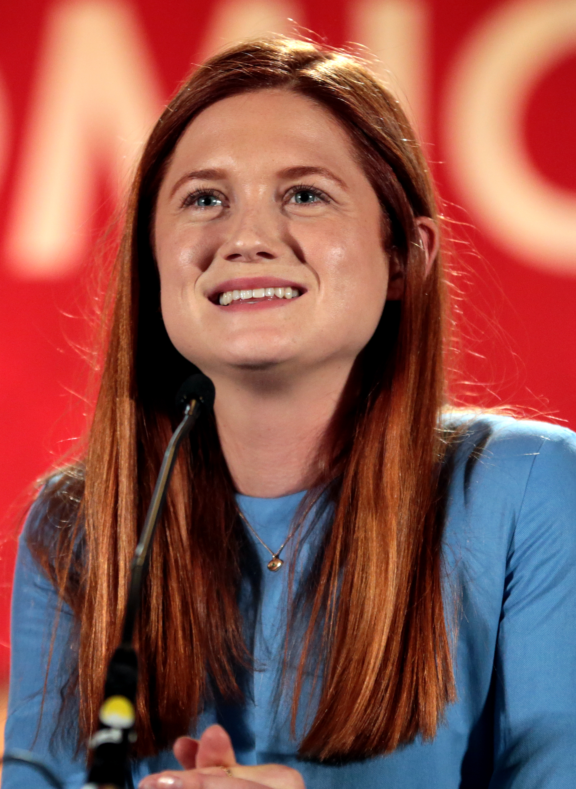 Bonnie Wright speaking at the 2017 Phoenix Comicon in Phoenix, Arizona.